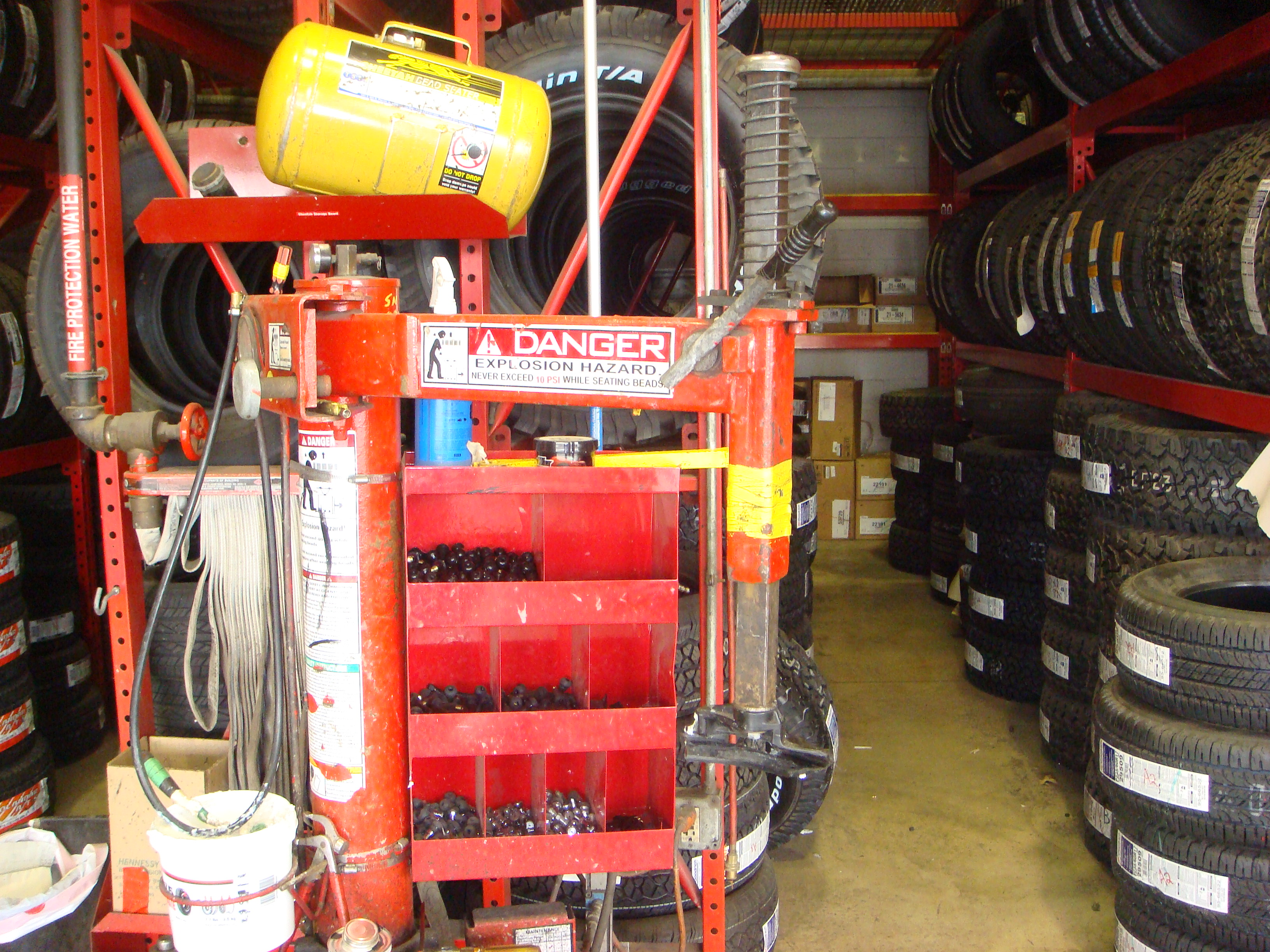 Mount/Demount mechanism that is part of the Coats Rim Clamp tire changer.